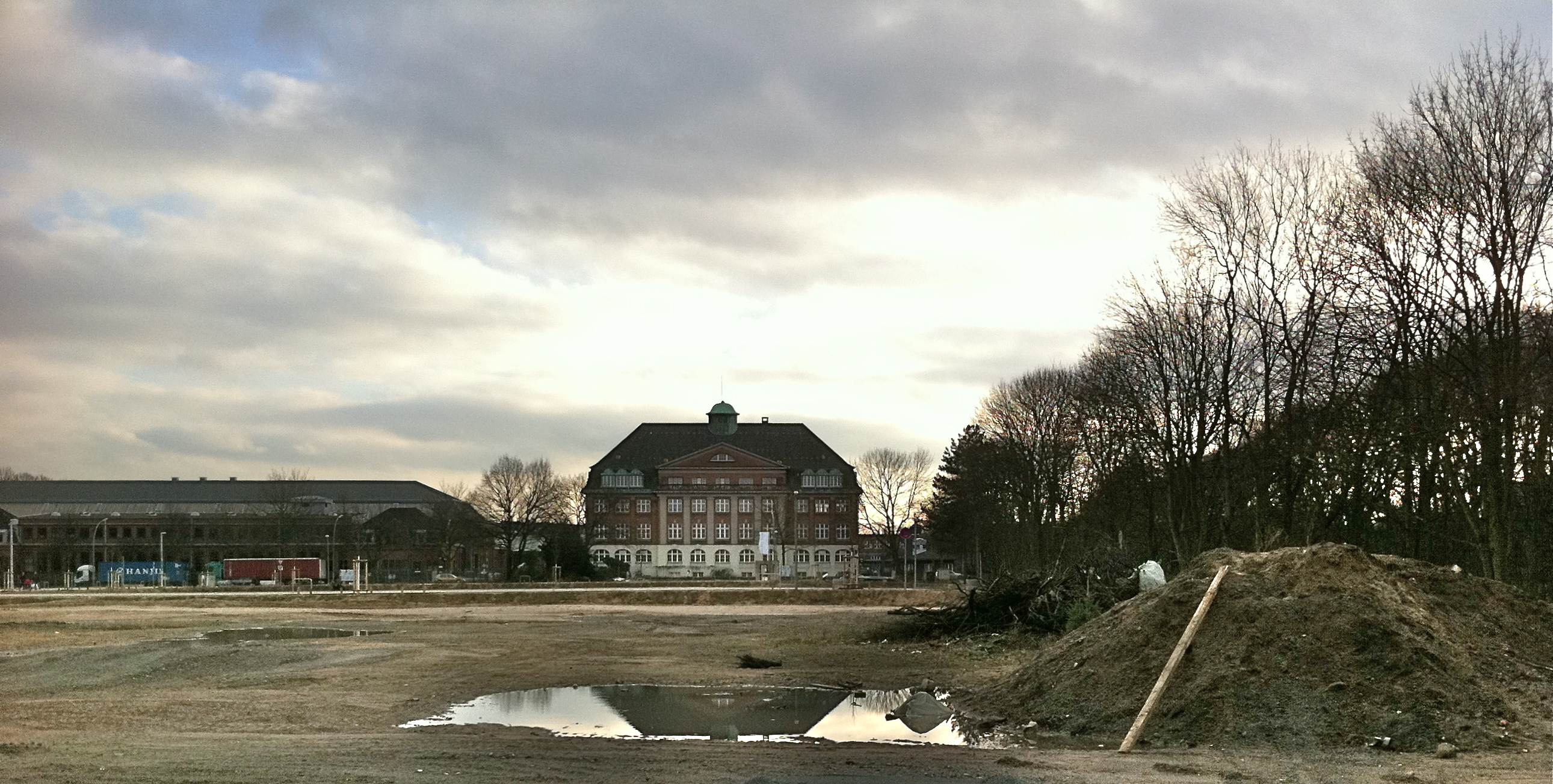 Hamburg (Barmbek-Nord), Germany: The former head office of the Hamburger Hochbahn and the canal Barmbeker Stichkanal at the right hand side